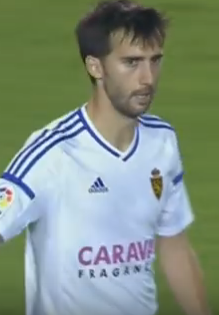 Spanish footballer Manu Lanzarote